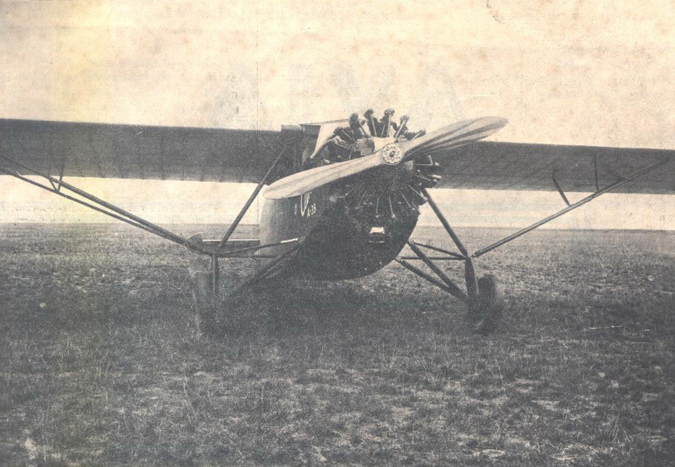 The Aero A.35 was a Czechoslovakian airliner of the 1920s and 30s. Engine Walter-Jupiter 420 HP.